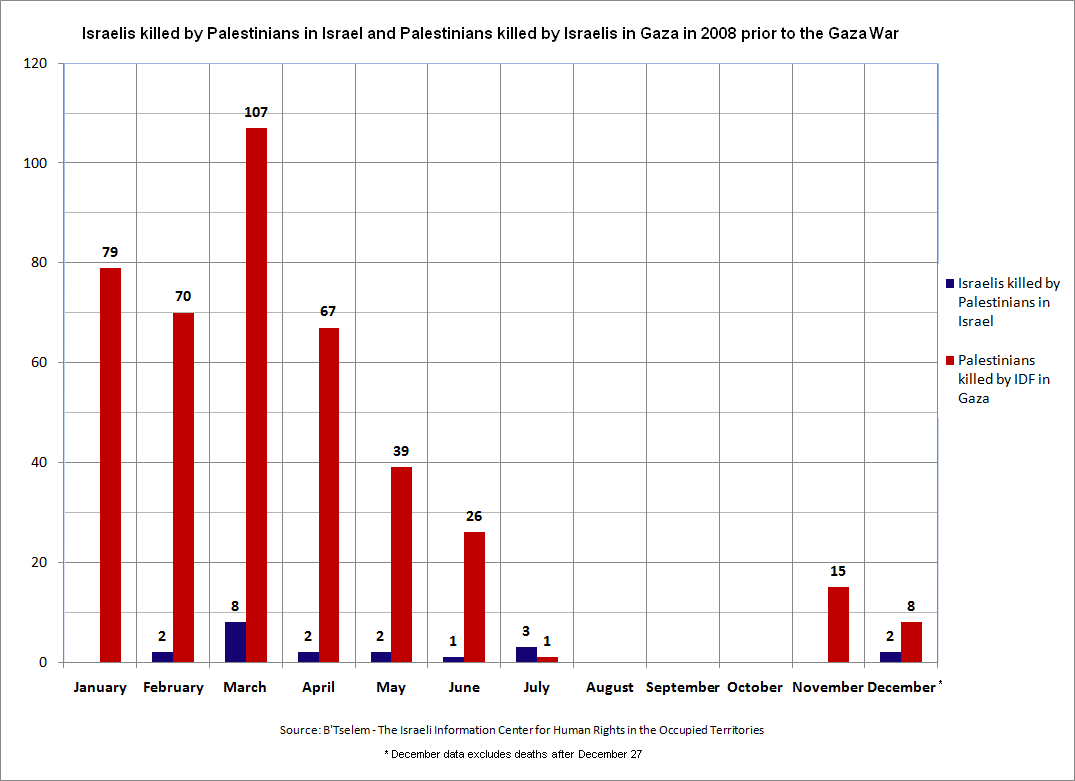 Israelis killed by Palestinians in Israel and Palestinians killed by Israelis in Gaza, 2008 prior to the Gaza War